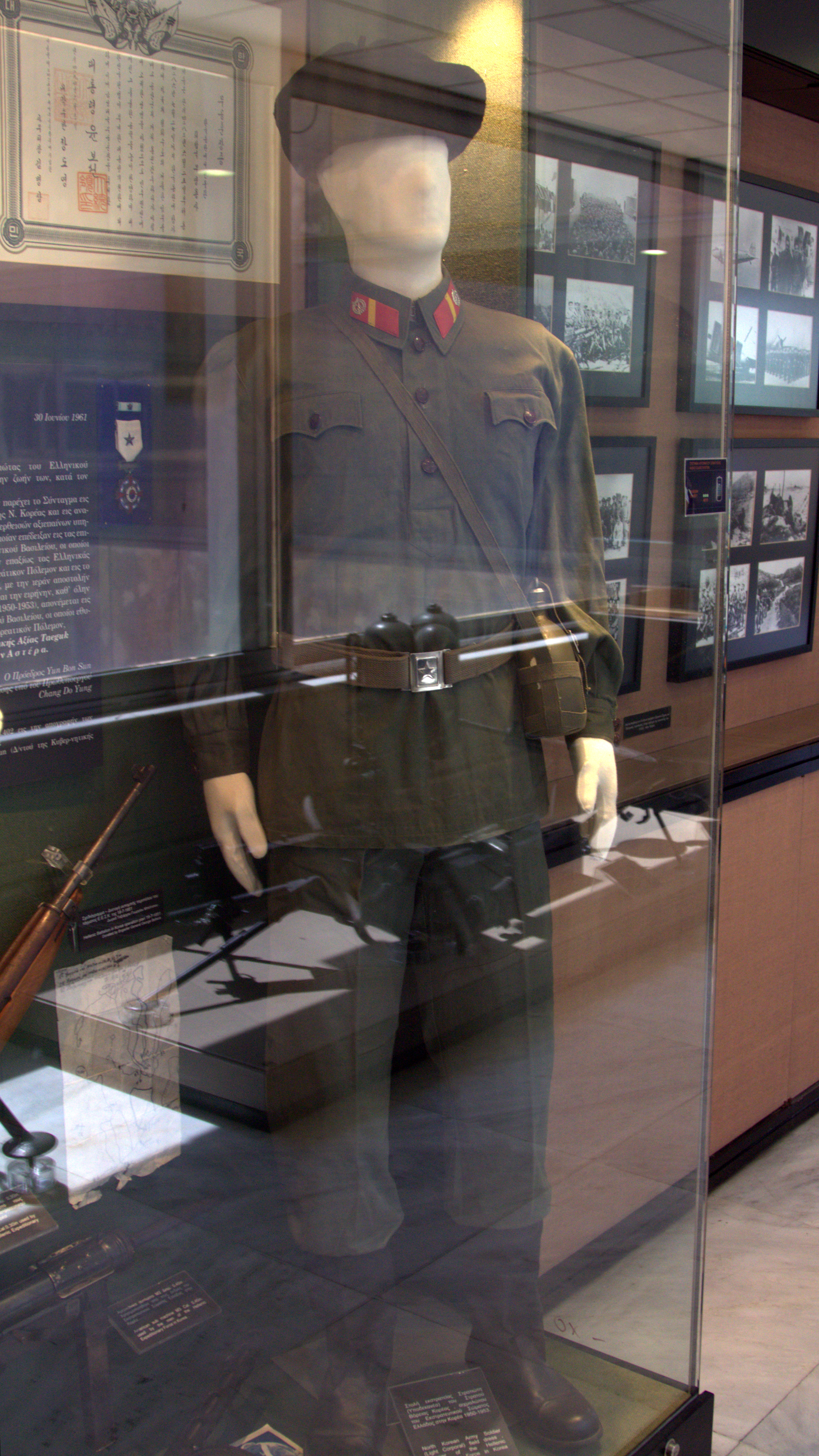 Prisoner of the Hellenic Expeditionary Force in Korea 1950-1953. Hellenic War Museum (Athens, Greece). --- Πολεμικό Μουσείο Ελλάδος. Αθήνα.